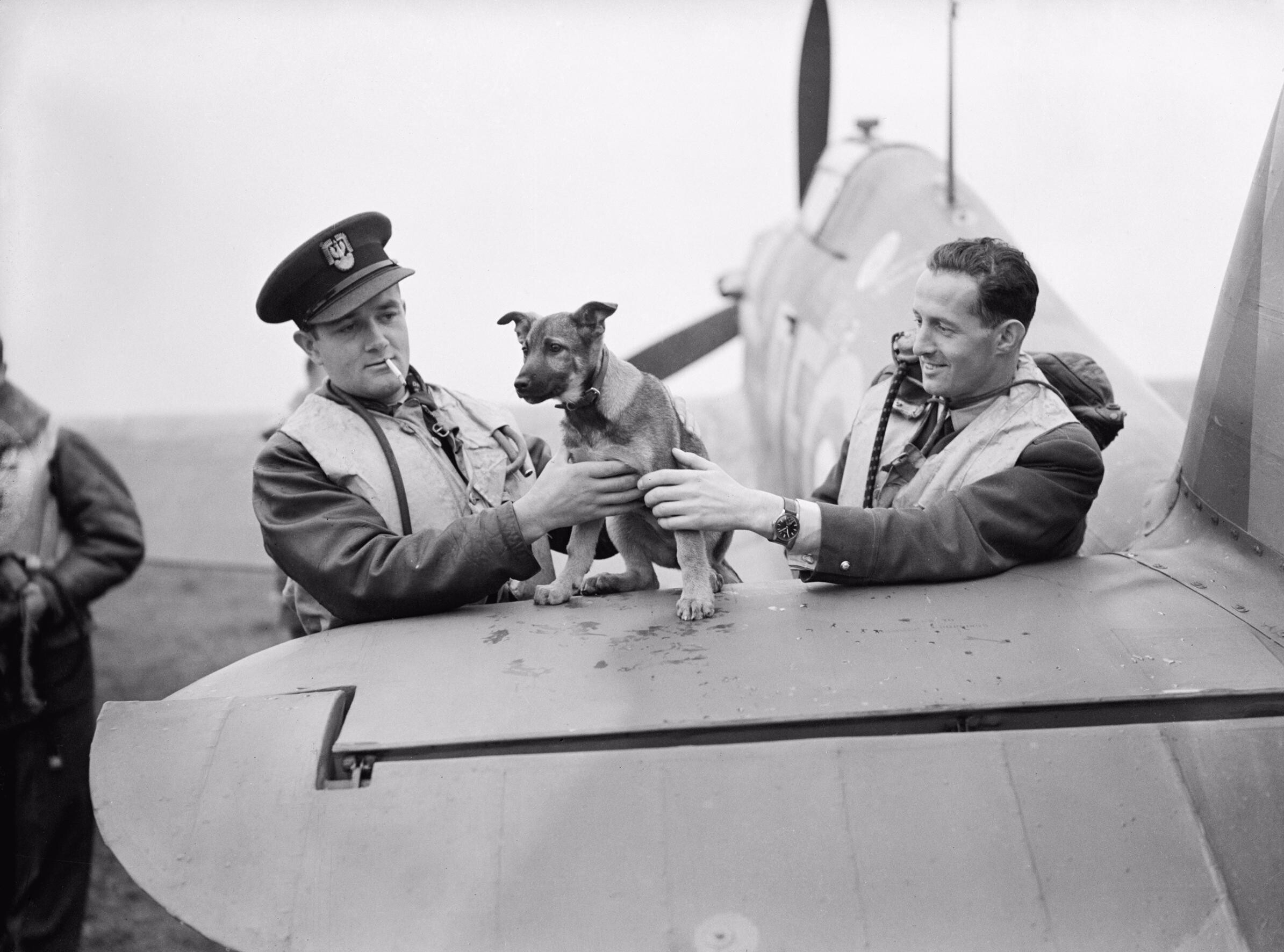 The 303 Polish Fighter Squadron in the Battle of Britain In the summer of 1940 the first Polish squadrons were formed in Fighter Command. No 303 'City of Warsaw' Squadron was the top-scoring RAF unit in September 1940, with nine of its pilots claiming five or more kills. Pilot Officers Jan Zumbach (left) and Mirosław Ferić, two of its aces, playing with the Squadron's mascot - a puppy dog. This photograph was taken at Leconfield in October 1940.